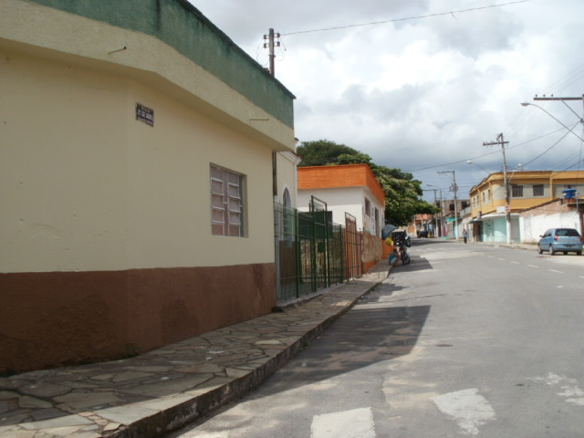 View of Santa Cruz de Minas city, in Minas Gerais state, Brazil.